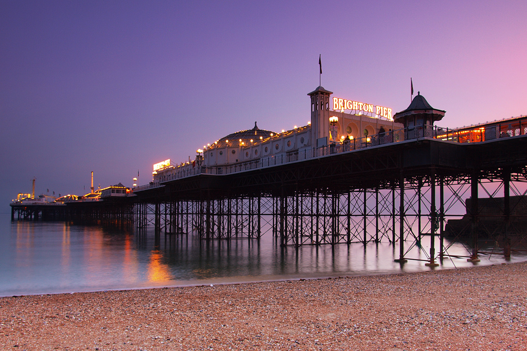 Nice clear evening. Used a Hitech 0.9 Hard GND to hold back the Pier lights.